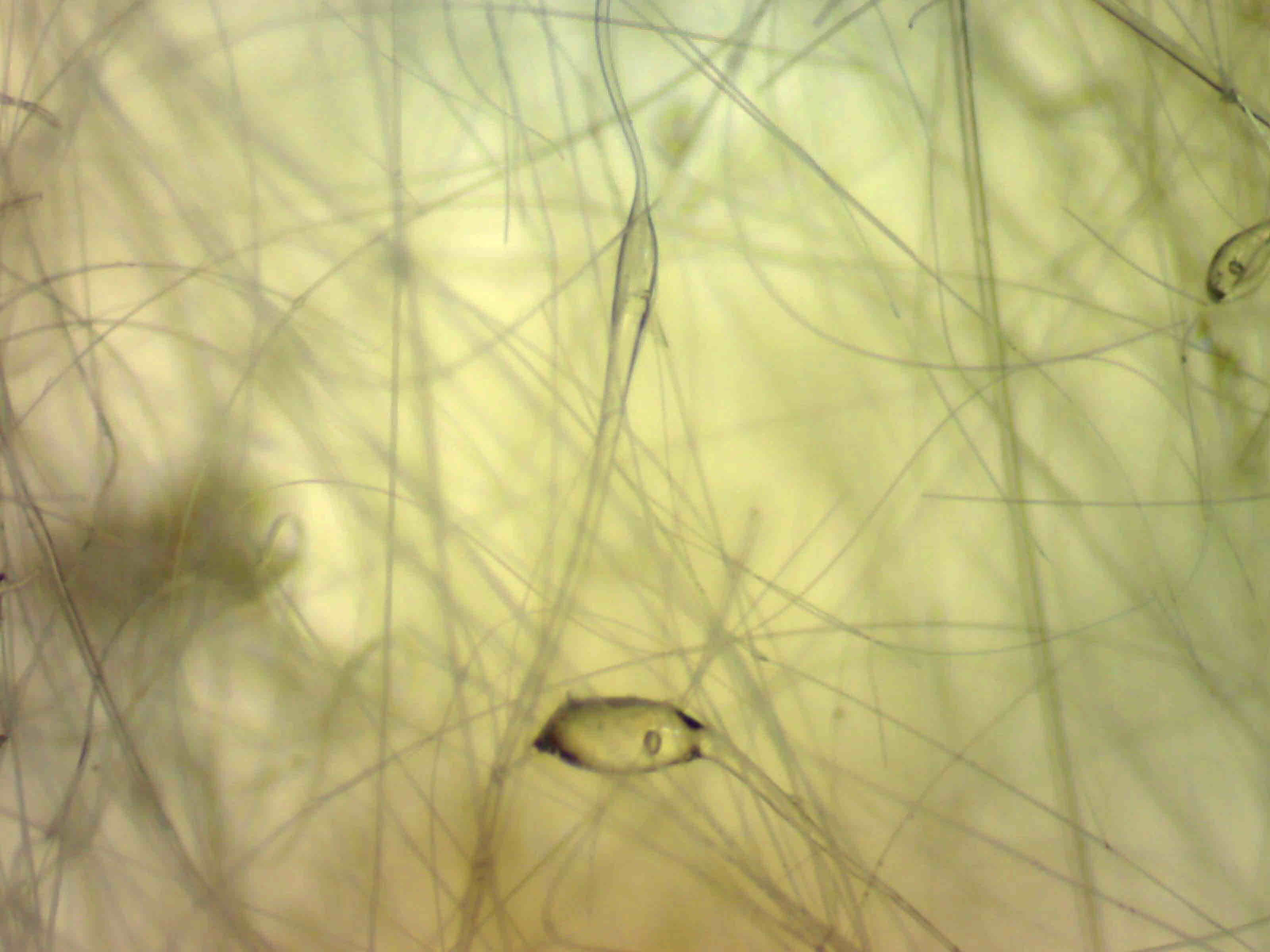 Microscopic close-up of ceramic fibre.